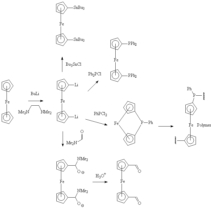 Ferrocène lithiation